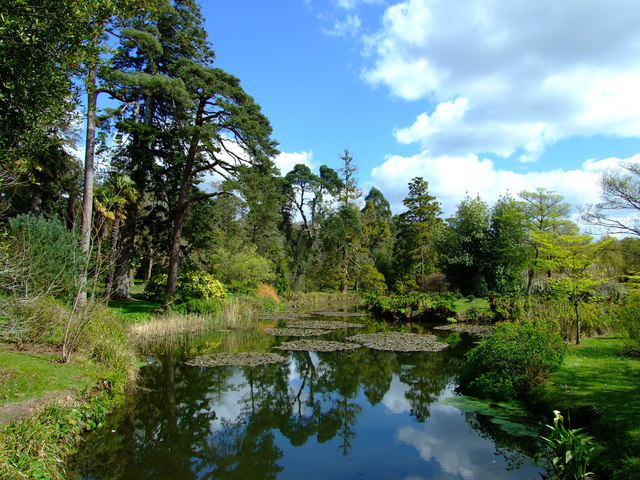 Fota Gardens and Arboretum Extensive and well kept gardens here contain many hardy and unusual plants from all over the world, some of which are not in general cultivation in Ireland or the U.K. There is also a walled flower garden and a formal rose garden.